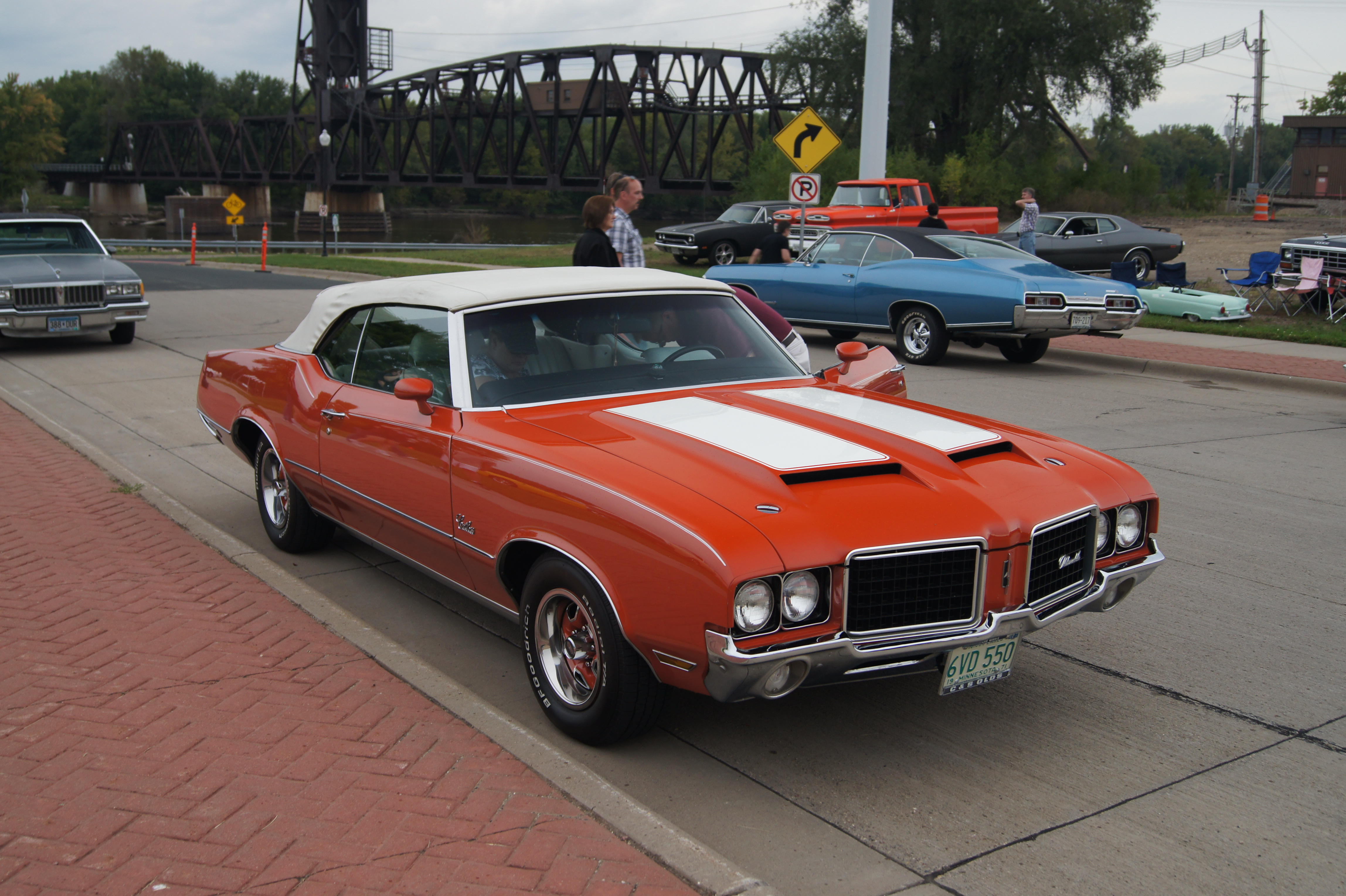 9th Annual Saturday Night Cruise-In September 20,2014 Hastings, Minnesota My second time to this event and the second time I got rained on. It was nice before and after the rain though. I did miss quite a few great cars that left before I could capture them, including a white 1962 Imperial that I caught a glimpse of at "Back to the 50's" More of my car pictures at my Flickr site